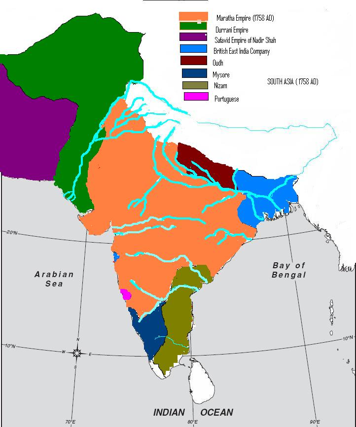 An approximate political map of the Indian subcontinent in 1758 AD. Maratha Empire was at its Zenith. They lost in North India in Battle of Panipat (1761).